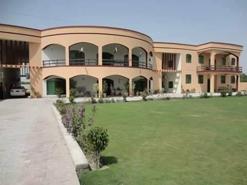 A beautiful college in Bhakkar District